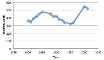 A graph showing the total population of Woodlands Civil Parish, Dorset, as reported by the Census of Population from 1801 to 2011.